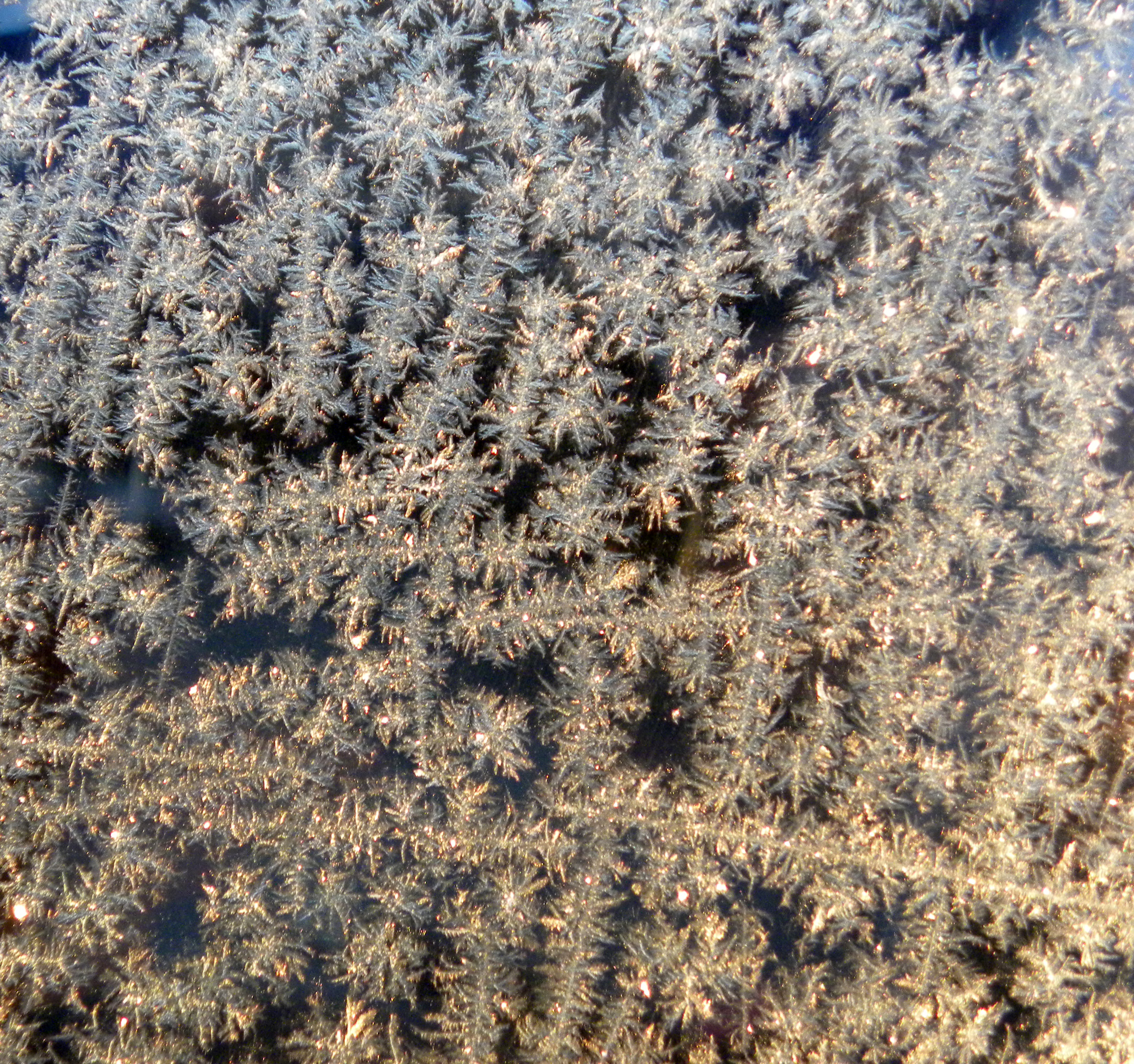 Frost on a car window (Wilmington, Ohio); air temperature was 15°F.